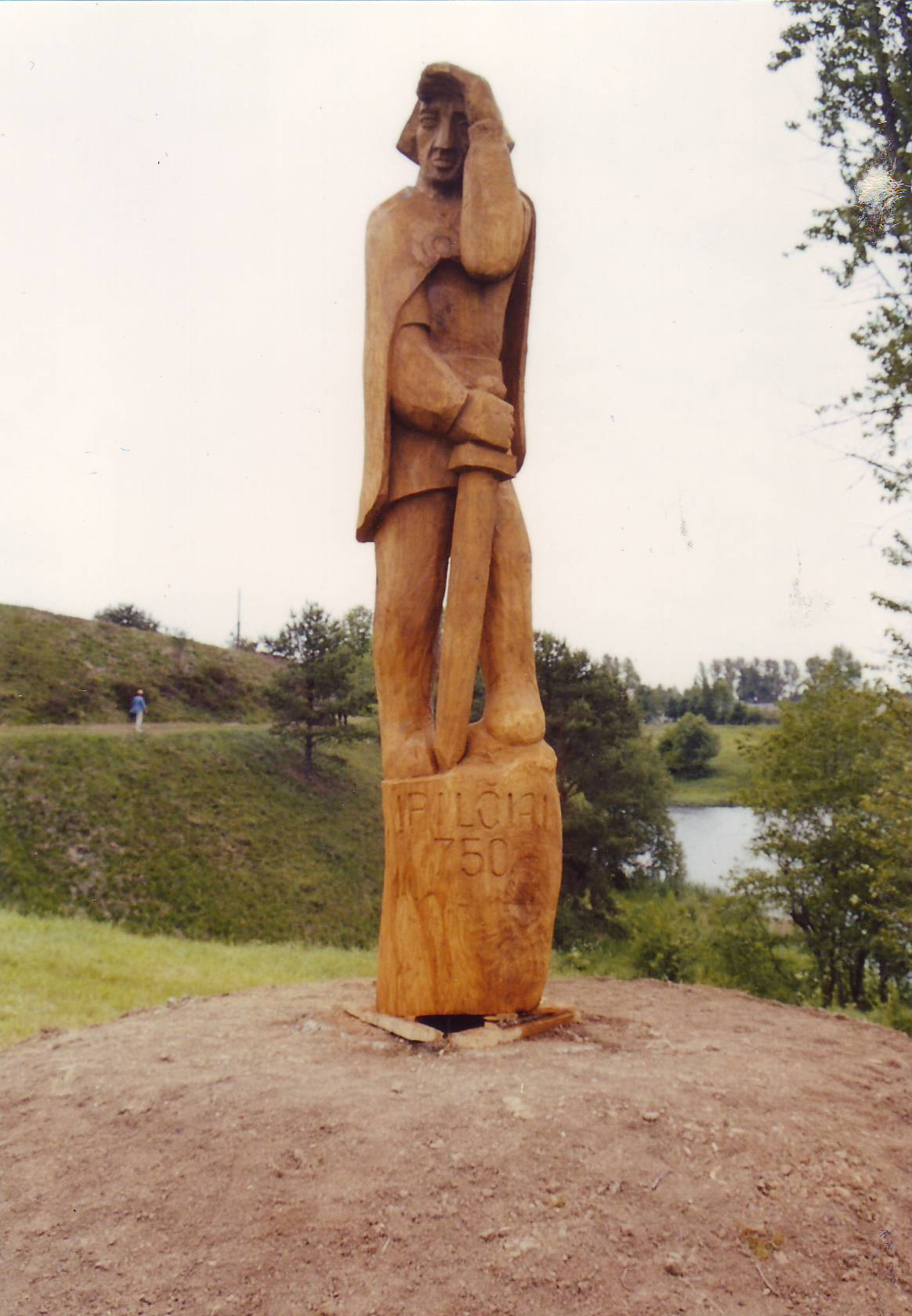 Senoji Įpiltis, Kretinga district, Lithuania